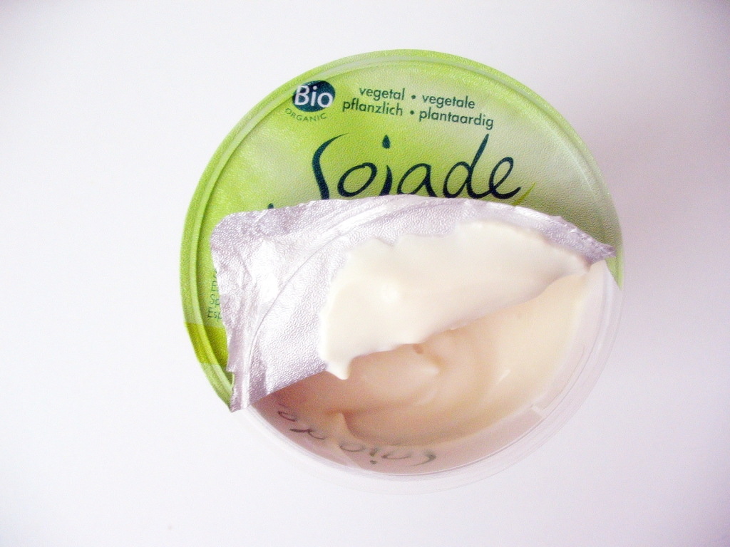 Sojade organic soy yogurt. It is sold in France and Germany in 400g pints for about 1,50 €. It is lactose free, vegan and additive free - it is made entirely of soy milk and natural yogurt bacteria. Very nice, creamy and smooth.